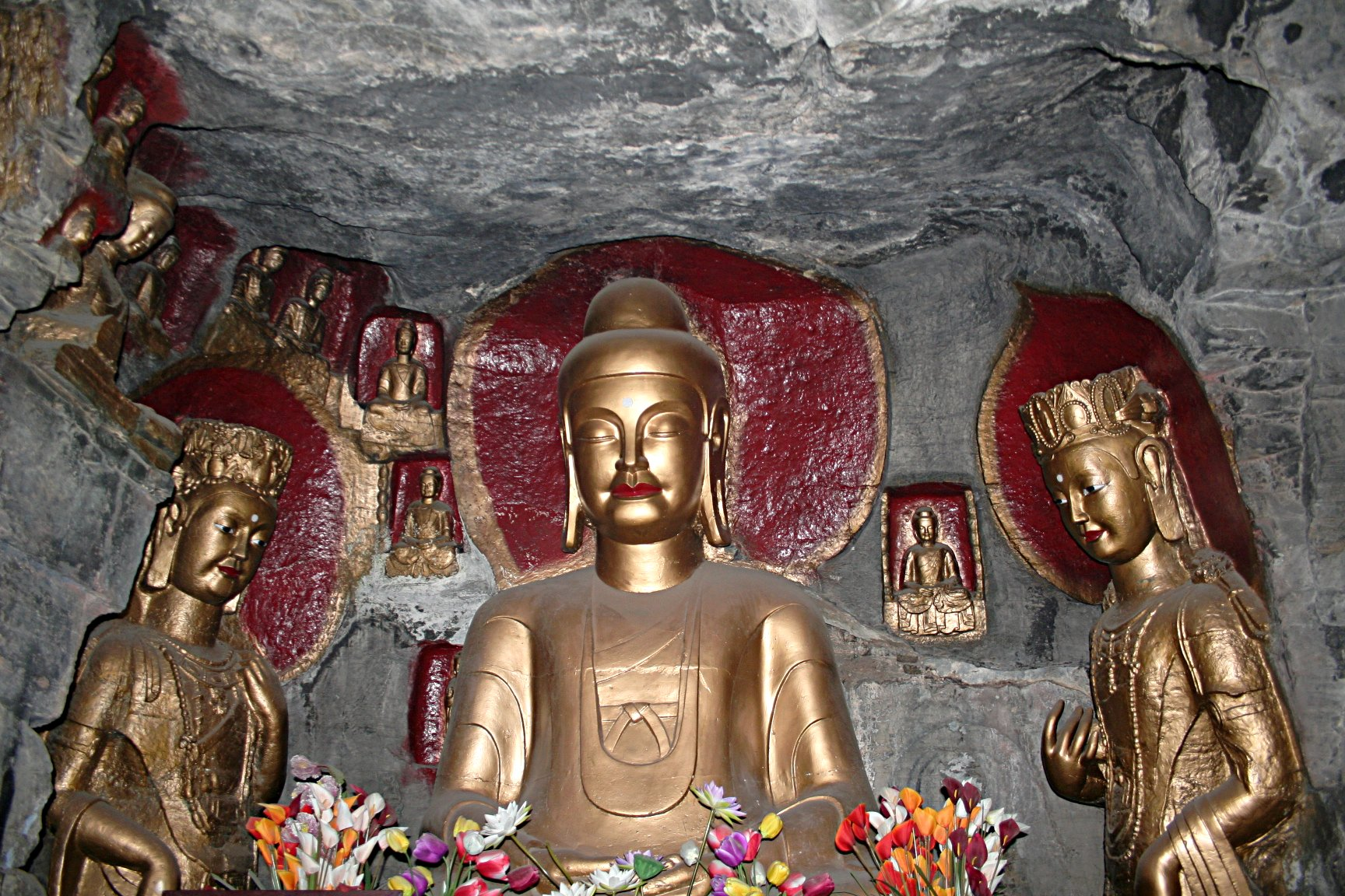 Buddha statues in a cave in cliff behind the Xingguochan Temple on the Thousand Buddha Mountain, Jinan, Shandong Province, China.